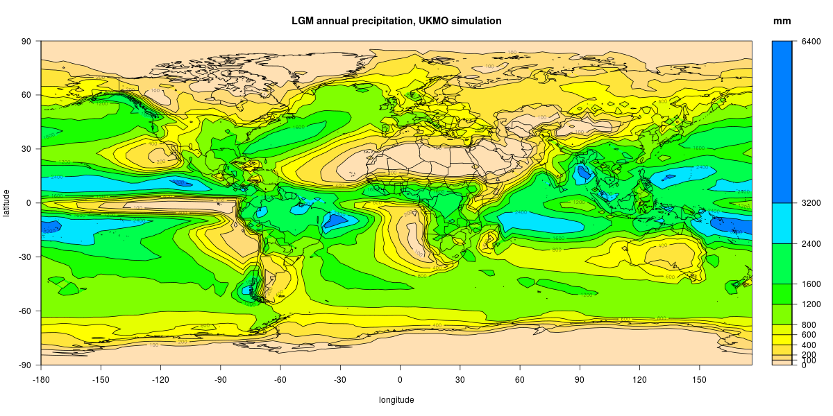 Precipitation at Last Glacial Maximum, according of UKMO paleoclimate simulation.